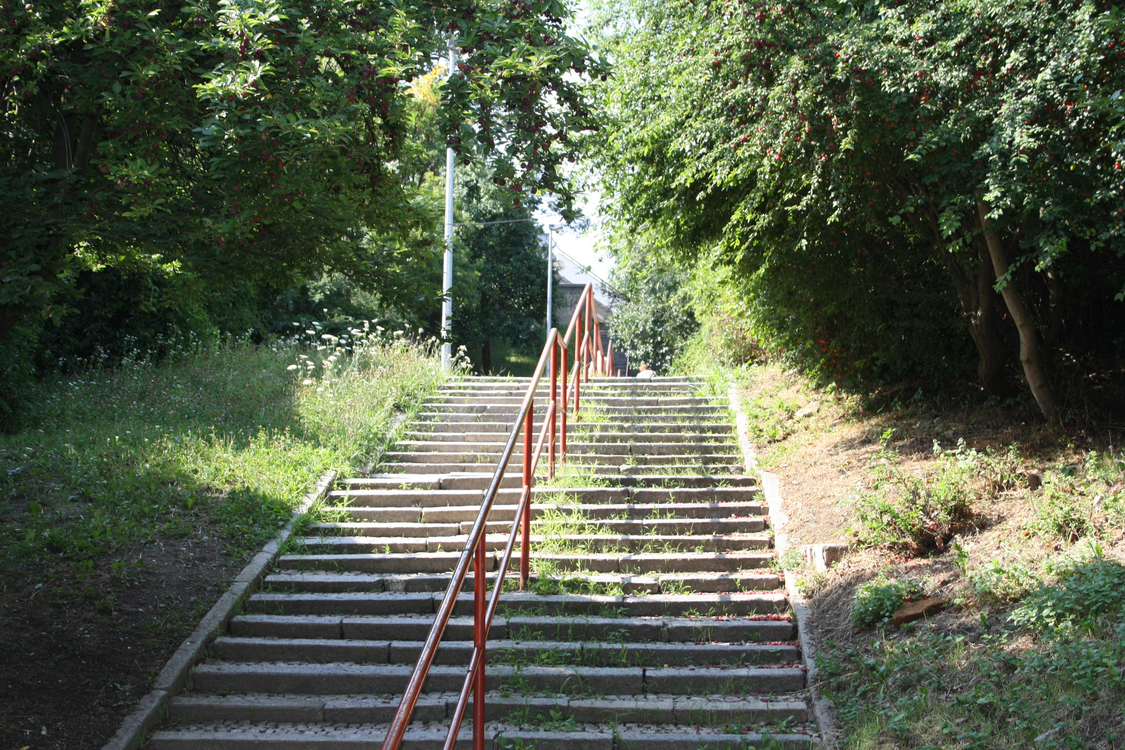 Prague_Liben_staircase_between_Bulovka_and_Budinova